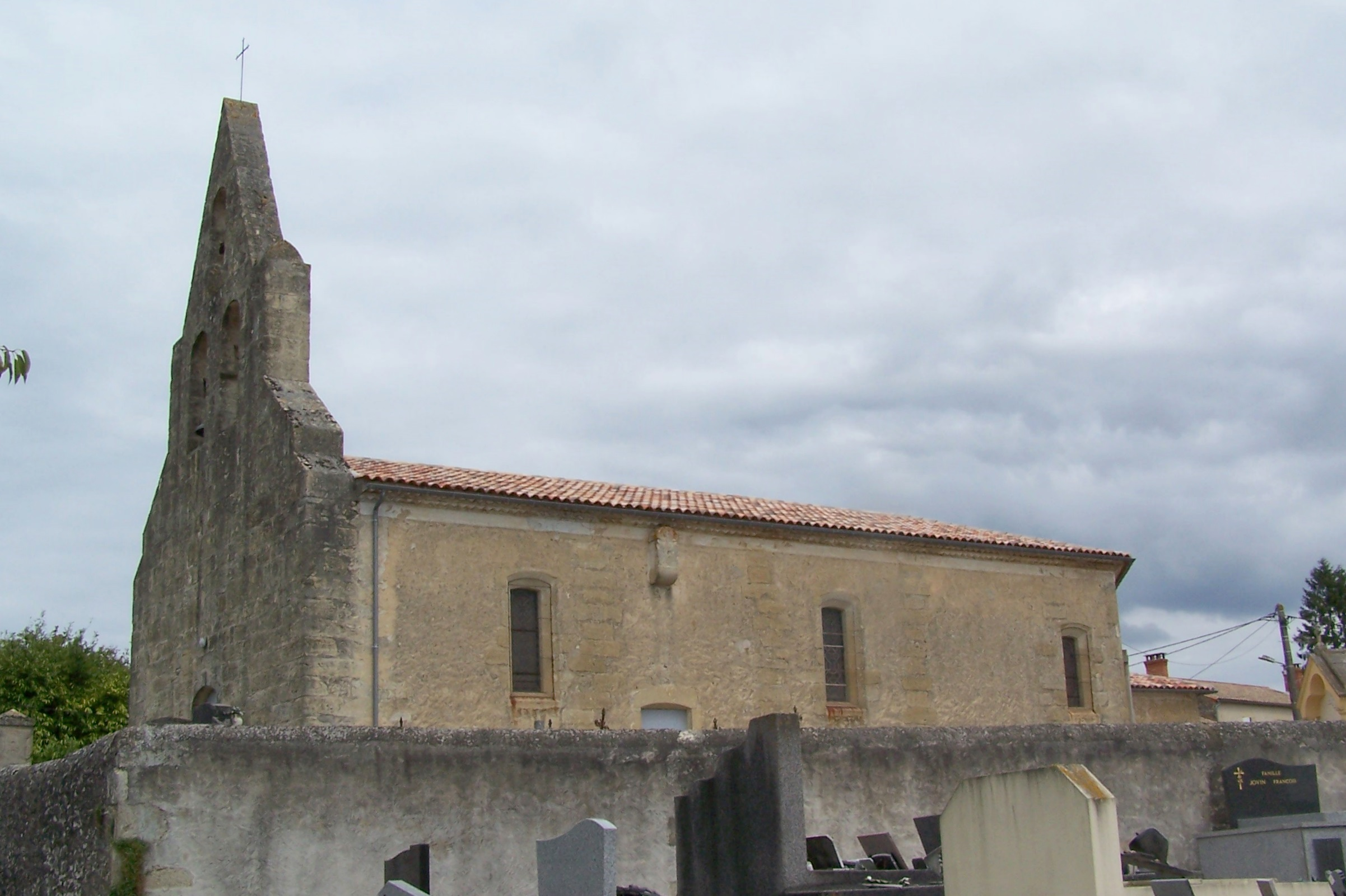 Church of Mesterrieux (Gironde, France)